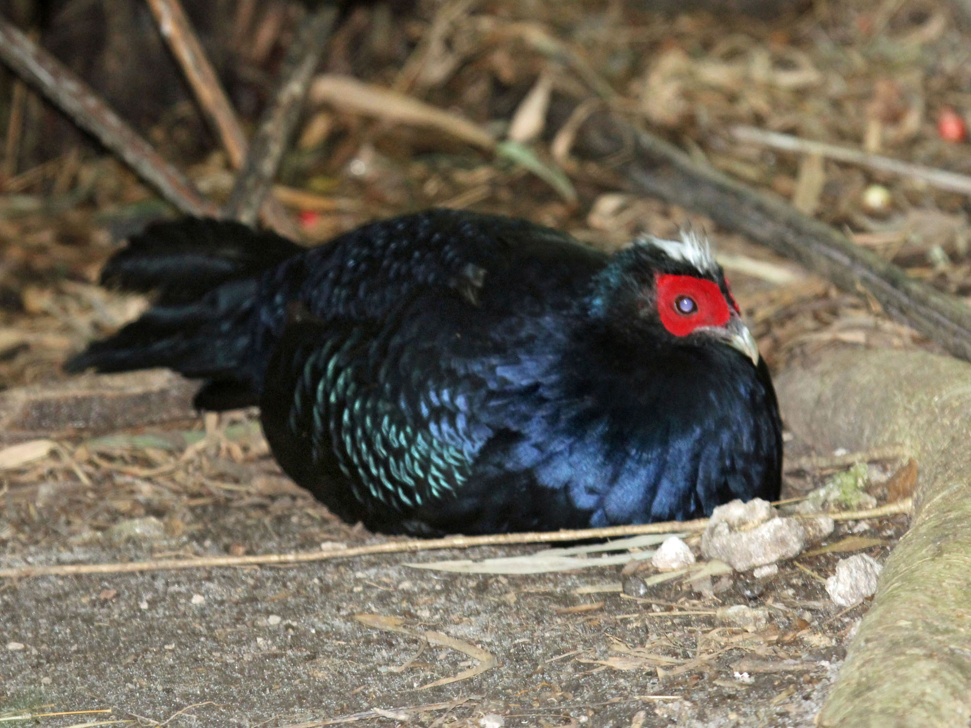 Edward's Pheasant (Lophura edwardsi) - Miami Zoo